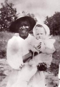 Julia Greeley, American former slave and Servant of God